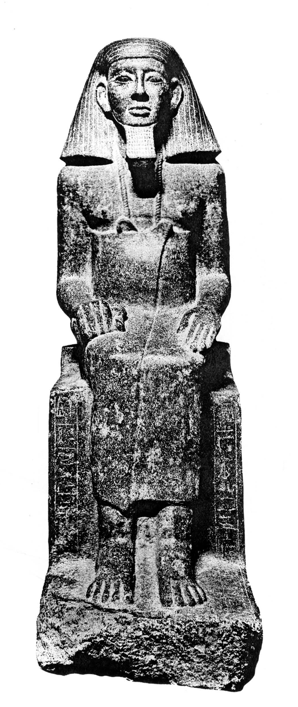 Statue of an unnamed ancient Egyptian vizier, dedicated by his son, Ankhu, also a vizier. Granite from Karnak, great temple cachette, reign of Sobekhotep III, 13th dynasty, Second intermediate period. Cairo, Egyptian Museum CG 42034 (JE 36646).